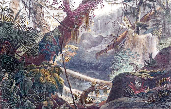 Title of work: Serra do Mar Valley (Valley in Mountain Range near the Sea). In: Voyage pittoresque et historique au Brésil, ou Séjour d'un artiste français au Brésil, depuis 1816 jusqu'en 1831 inclusivement, epoques de l'avènement et de l'abdication de S. M. D. Pedro 1er, fondateur de l'Empire brésilien. Dédié à l'Académie des Beaux-Arts de l'Institut de France. (published 1834-1839) Library Division: Humanities and Social Sciences Library / Print Collection, Miriam and Ira D. Wallach Division of Art, Prints and Photographs Description: 3 v. facsim., map, 2 plans, port. 50 cm. and 6 portfolios (153 plates) (incl. ports.) 59 cm. Item/Page/Plate Number: I/2-e Cahier - Pl. 1 Medium: Lithographs -- Hand-colored Specific Material Type: Prints Subject(s): Brazil Forests Serra do Mar Mountains (Brazil) Additional Name(s): Debret, Jean Baptiste, 1768-1848 -- Artist Debret, Jean Baptiste, 1768-1848 -- Author Collection Guide: The Luso-Hispanic New World in Early Prints and Photographs Digital Image ID: 1224039 Digital Record ID: 568664 Digital Record Published: 8-17-2004; updated 10-3-2007